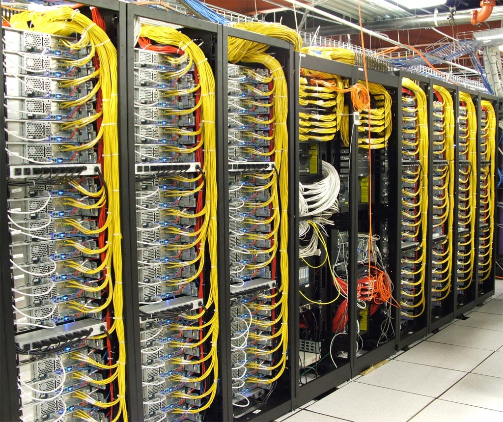 Back side of Emulab cluster